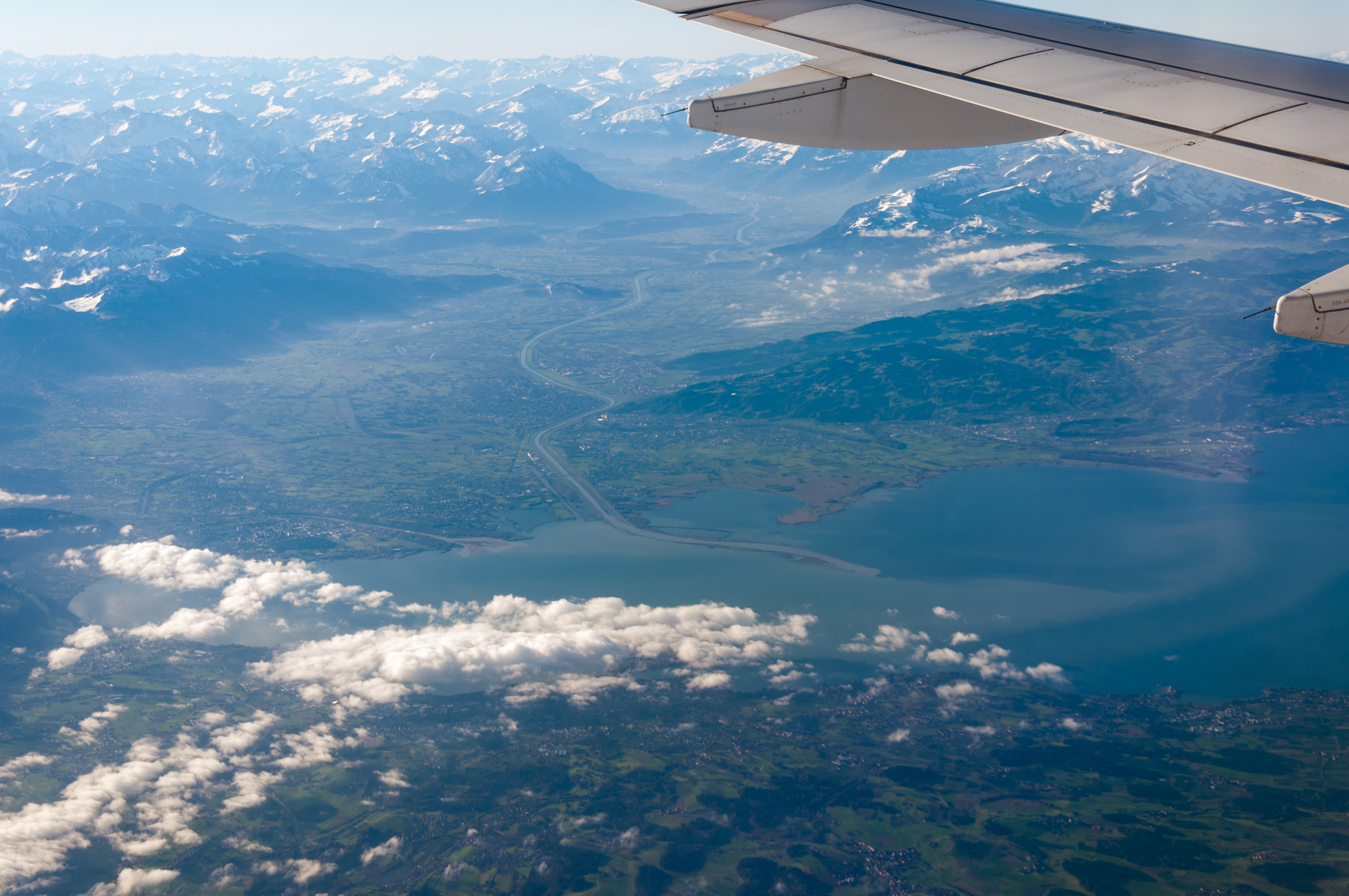 Aerial view of the Eastern part of Lake Constance and the Alpine Rhine valley. Germany/Austria/Switzerland/Liechtenstein